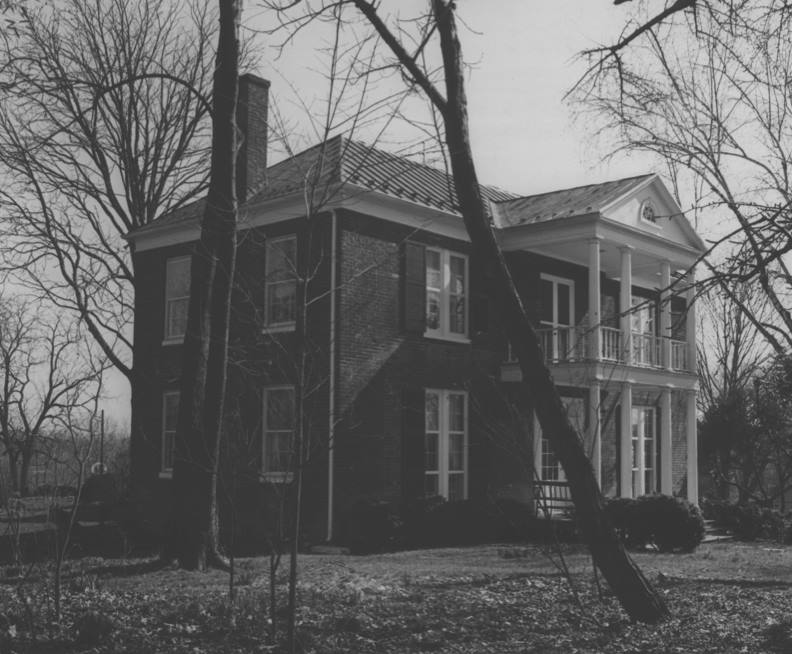 The Morgan-Bedinger-Dandridge House, also known as Poplar Grove, then Rosebrake, is part of a group of structures affiliated with the Morgan's Grove rural historic district near Shepherdstown, West Virginia. The house was known as Poplar Grove until 1877. The original building was built circa 1745 by Richard Morgan, and became known as the "Back Building". In 1803 the house was expanded by Daniel Morgan with a two-story brick structure, known as the "Great House". Formal gardens were added at this time. In 1859 the present main portion of the house was built by Caroline Bedinger, widow of Henry Bedinger. During her ownership the house was occupied by Colonel Alexander R. Boteler, a former U.S. Representative who, at the outbreak of the American Civil War became a Confederate officer. After the war, while Boteler was living at Poplar Grove, President U.S. Grant appointed Boteler to the U. S. Centennial Commission. Caroline's daughter, Danske Bedinger Dandridge, a noted poet, changed the name of the house to "Rosebrake" in 1877. A portico was added to the house in 1950, removed from a house on Long Island and shipped to West Virginia.[1]